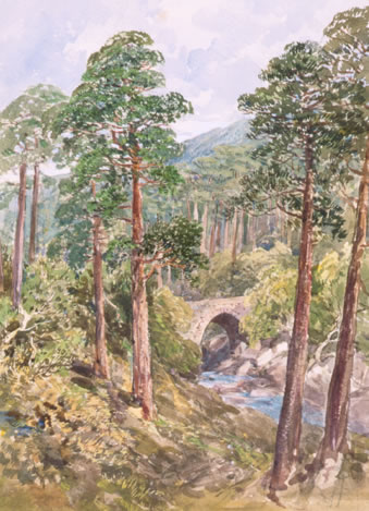 Torc Bridge, Forrest Road, by Mary Herbert, Muckross House Album, 1860